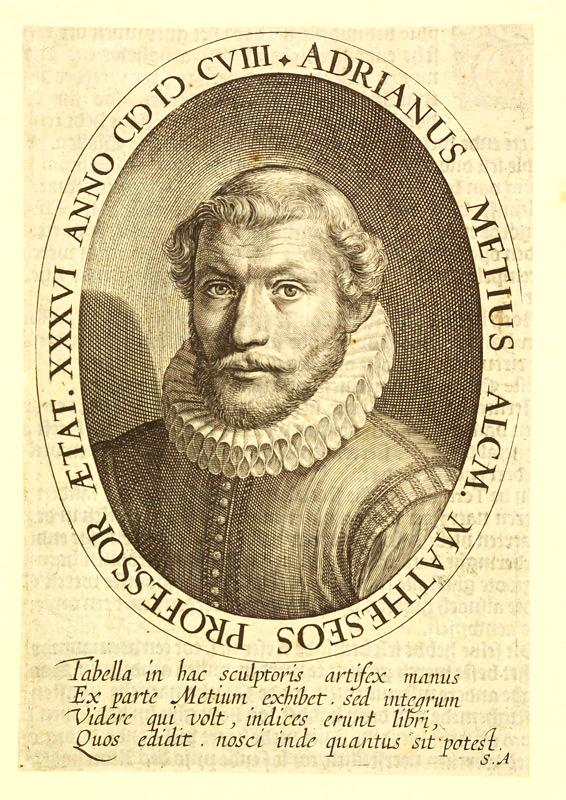 Metius (Adriaan Adriaansz., 1571-1635), Dutch geometer and astronomer